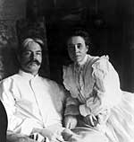 Edward MacDowell and his wife, Marian, half-length portrait, seated, facing front